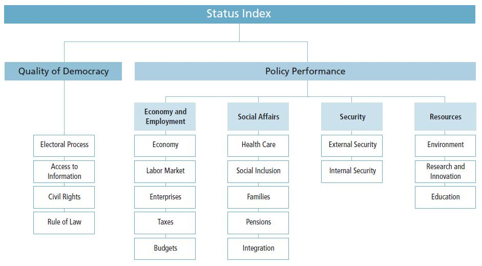 Composition of the SGI Status Index